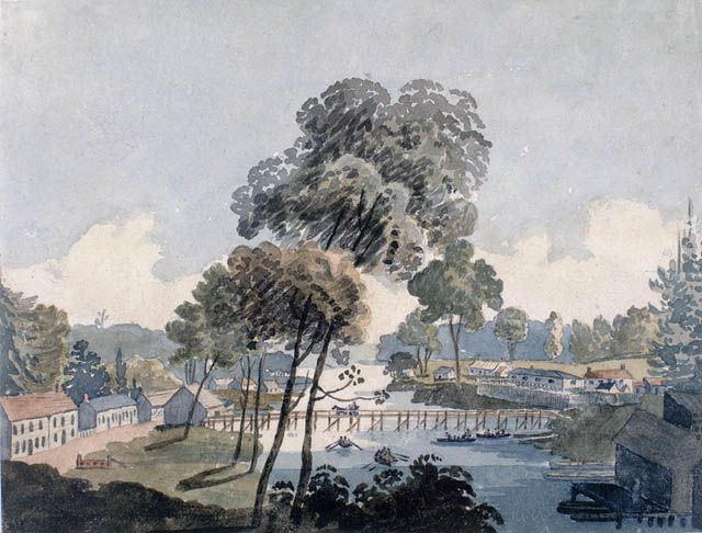 A copy depicting King's Bridge in Chippawa, Ontario